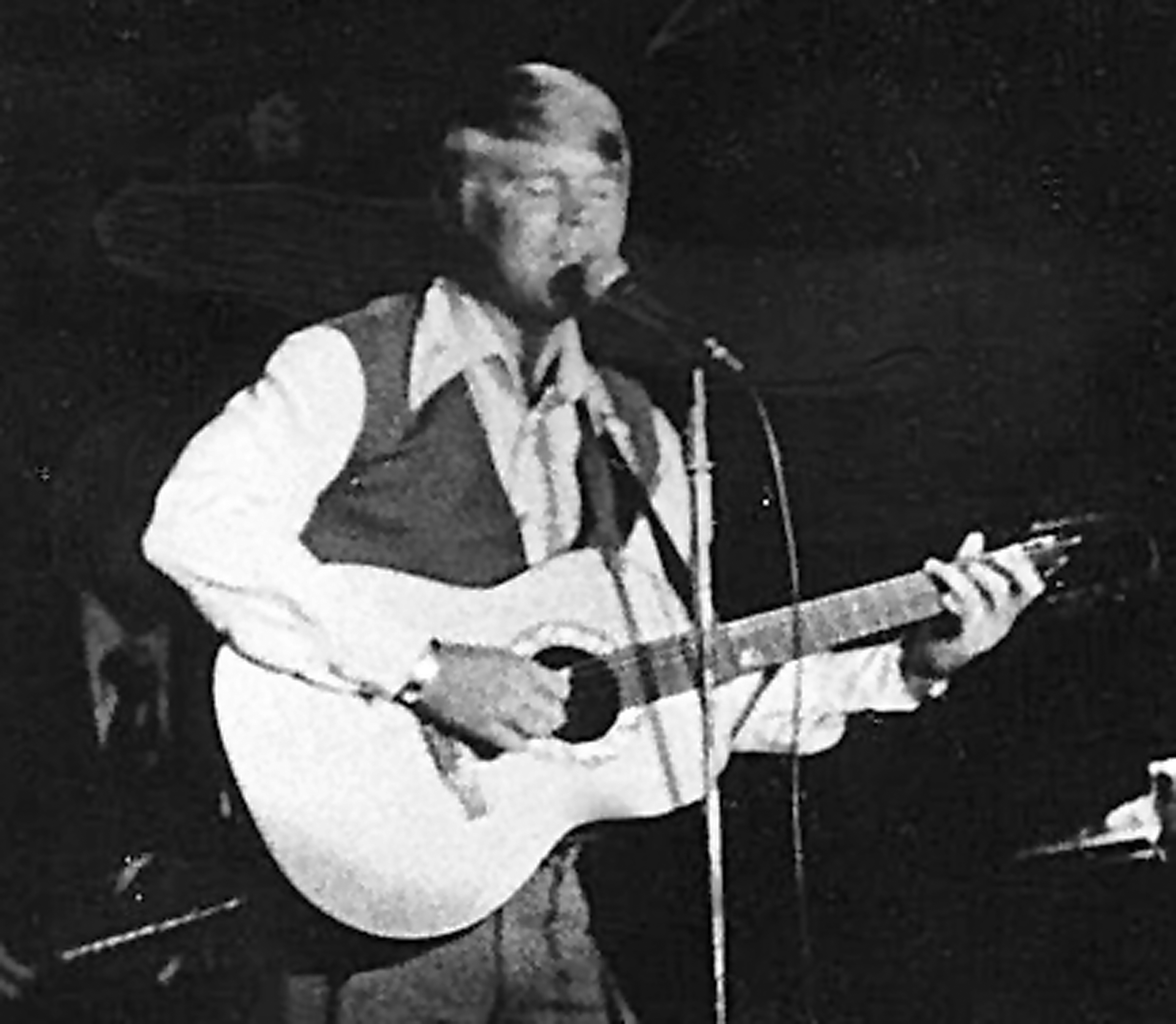 Ovation guitar played by Glen Campbell